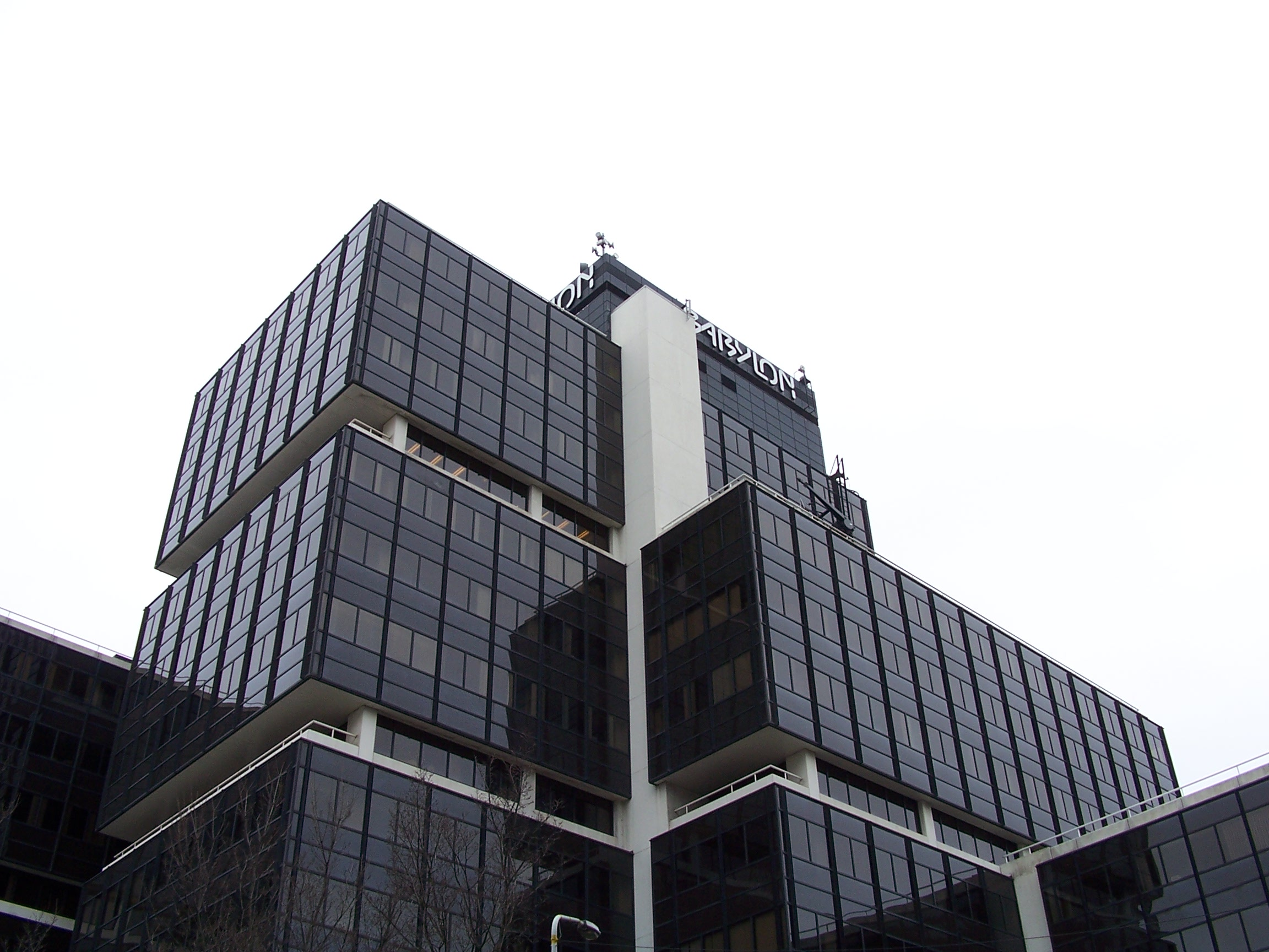 A shopcenter in The Hague, The Netherlands, self made picture. Architect: Jan A. Lucas and H.E. Niemeijer